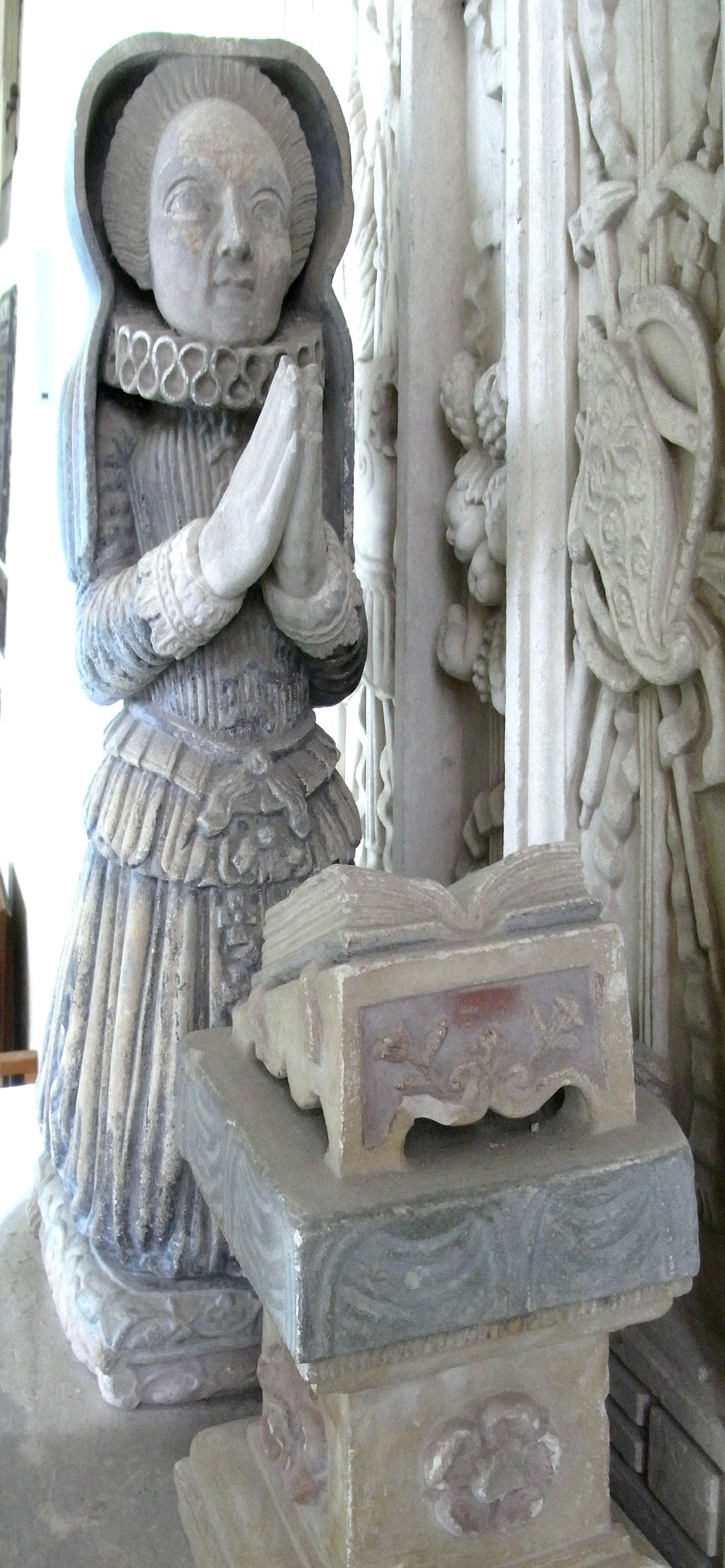 Effigy of Elizabeth Rolle, 1st wife of Sir John Acland (d.1620) of Columb John, Broadclyst. Detail from her husband's monument in Broadclyst Church